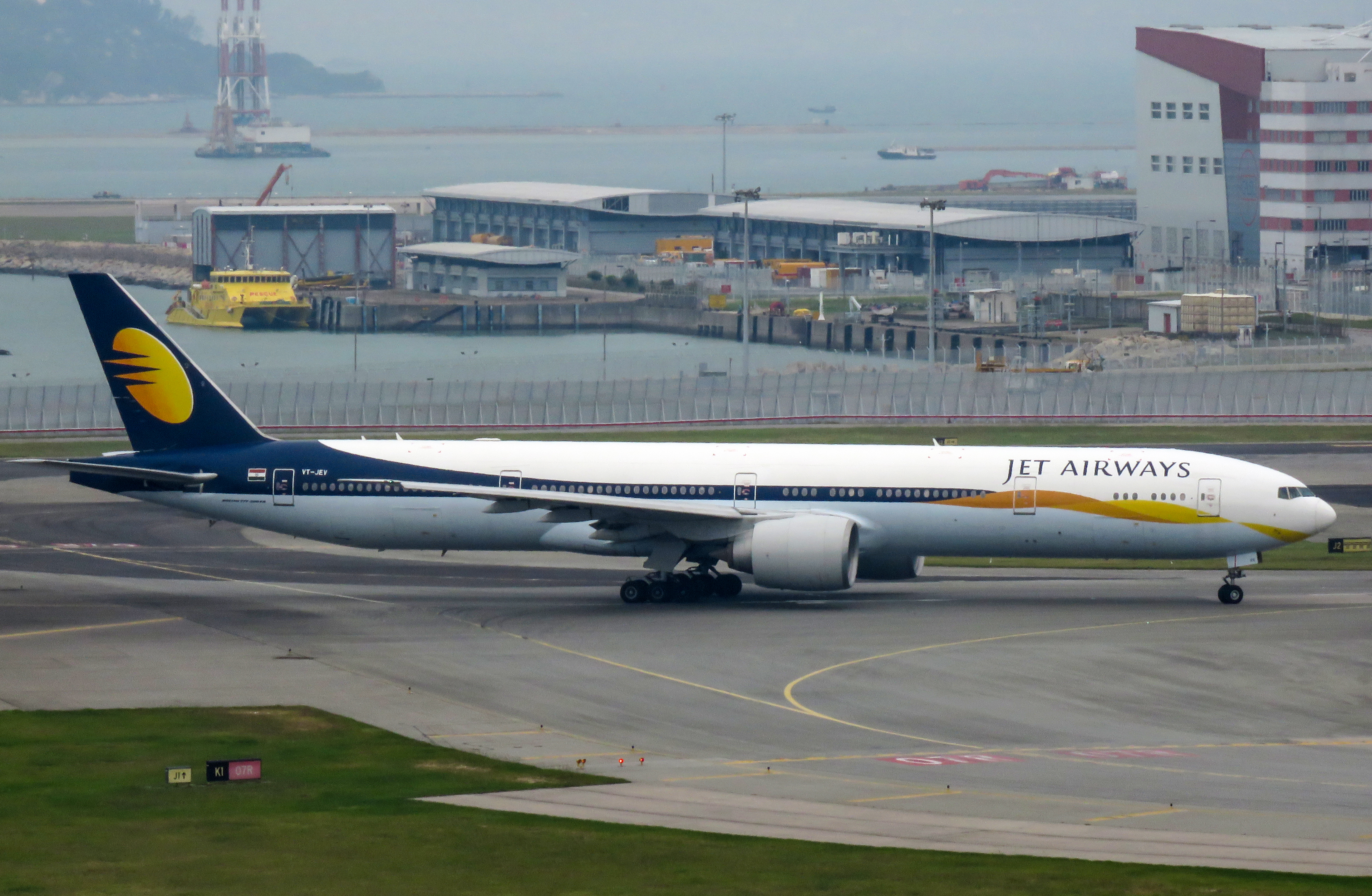 Jet Airways 77 to Delhi.